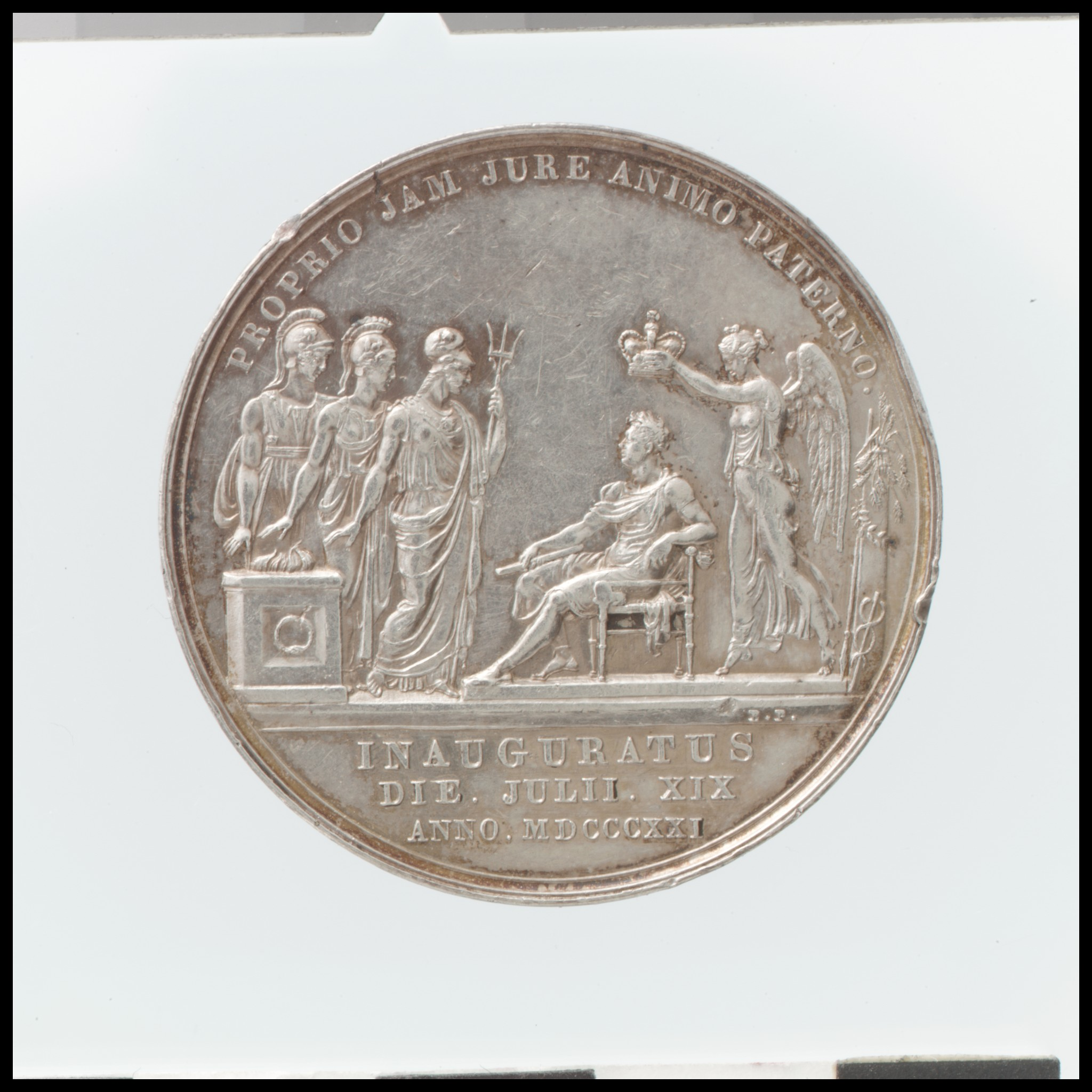 British; Medal; Medals and Plaquettes